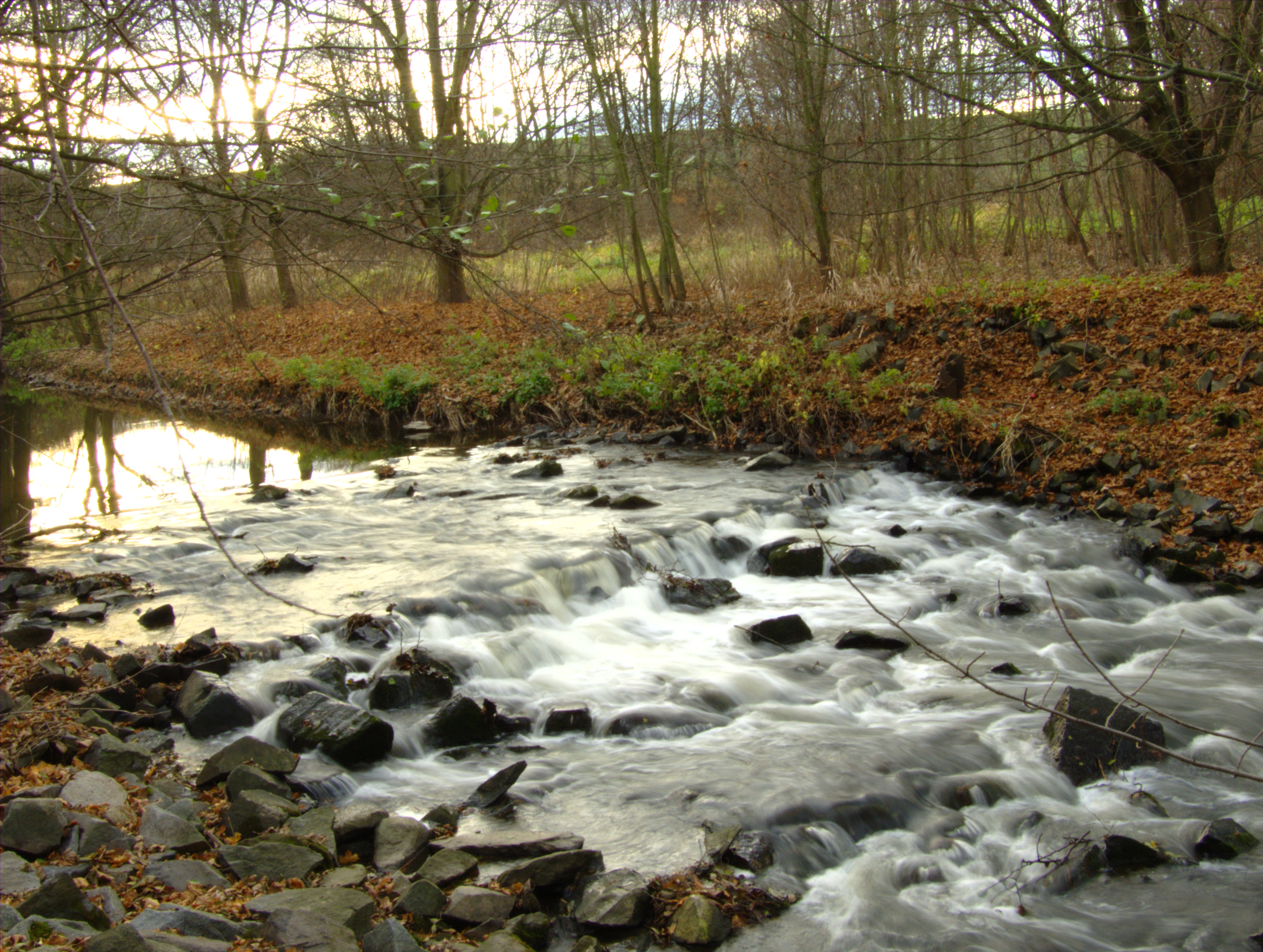 Výrovka river north from the town of Vrbčany, Central Bohemian Region, CZ This photograph was taken within the scope of the third year of the 'Czech Municipalities Photographs' grant.